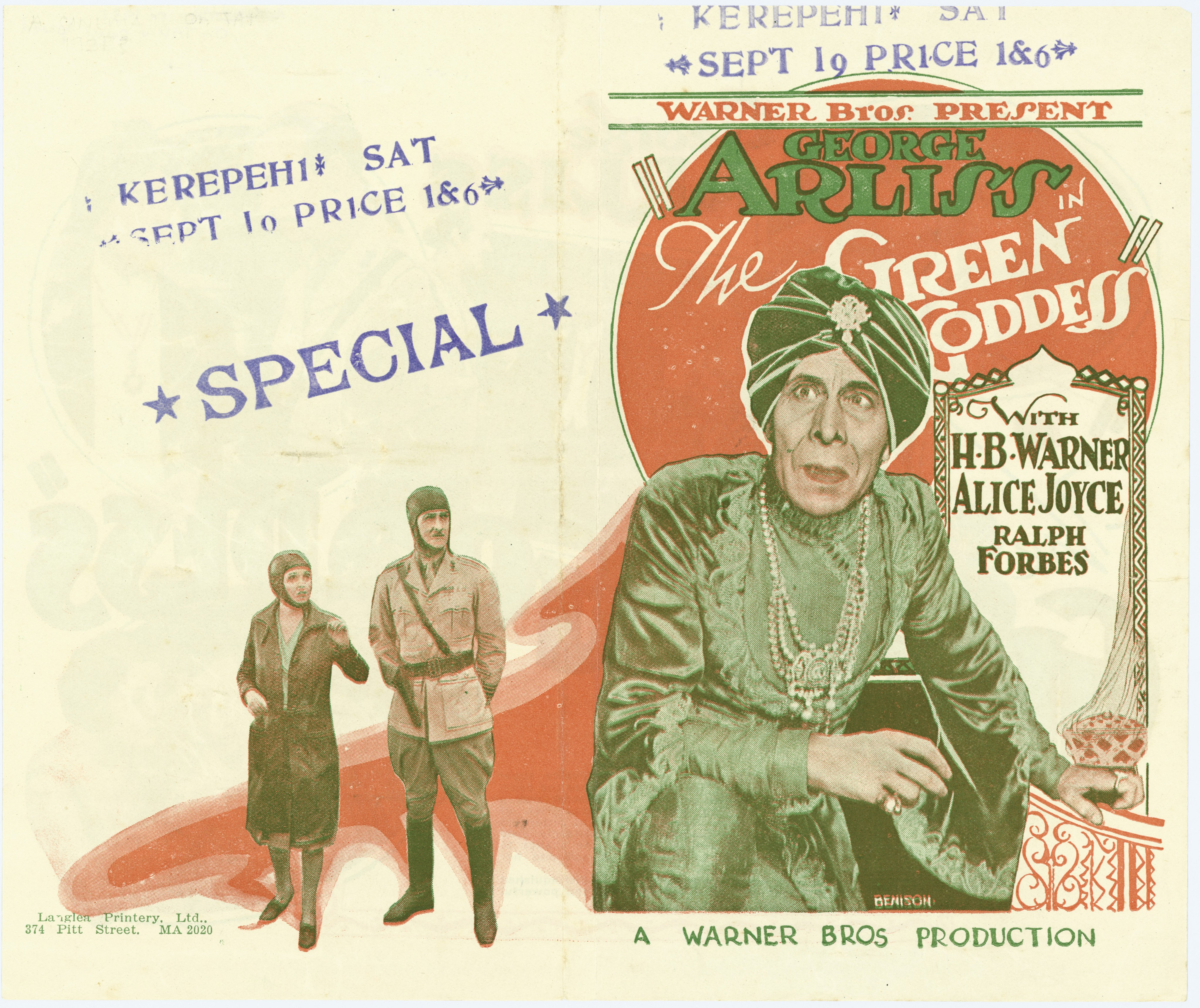 Warner Bros, The Green Goddess, 1931, Offset print on cover spread, 190 x 230 mm, Printed Ephemera Collection, Alexander Turnbull Library, Reference: Eph-A-CINEMA-1931-01-cover The 1920s and 1930s saw the proliferation of the type of small pamphlets and fliers that once again came into vogue in the 1990s. This folded pamphlet, for an action thriller with touches of exoticism, was published in Massachusetts but it was rubber-stamped in New Zealand to advertise a screening at Kerepehi. Buses brought theatre-goers from the surrounding rural district to watch the show. The Ephemera collection contains several pamphlets stamped in this way Take a closer look